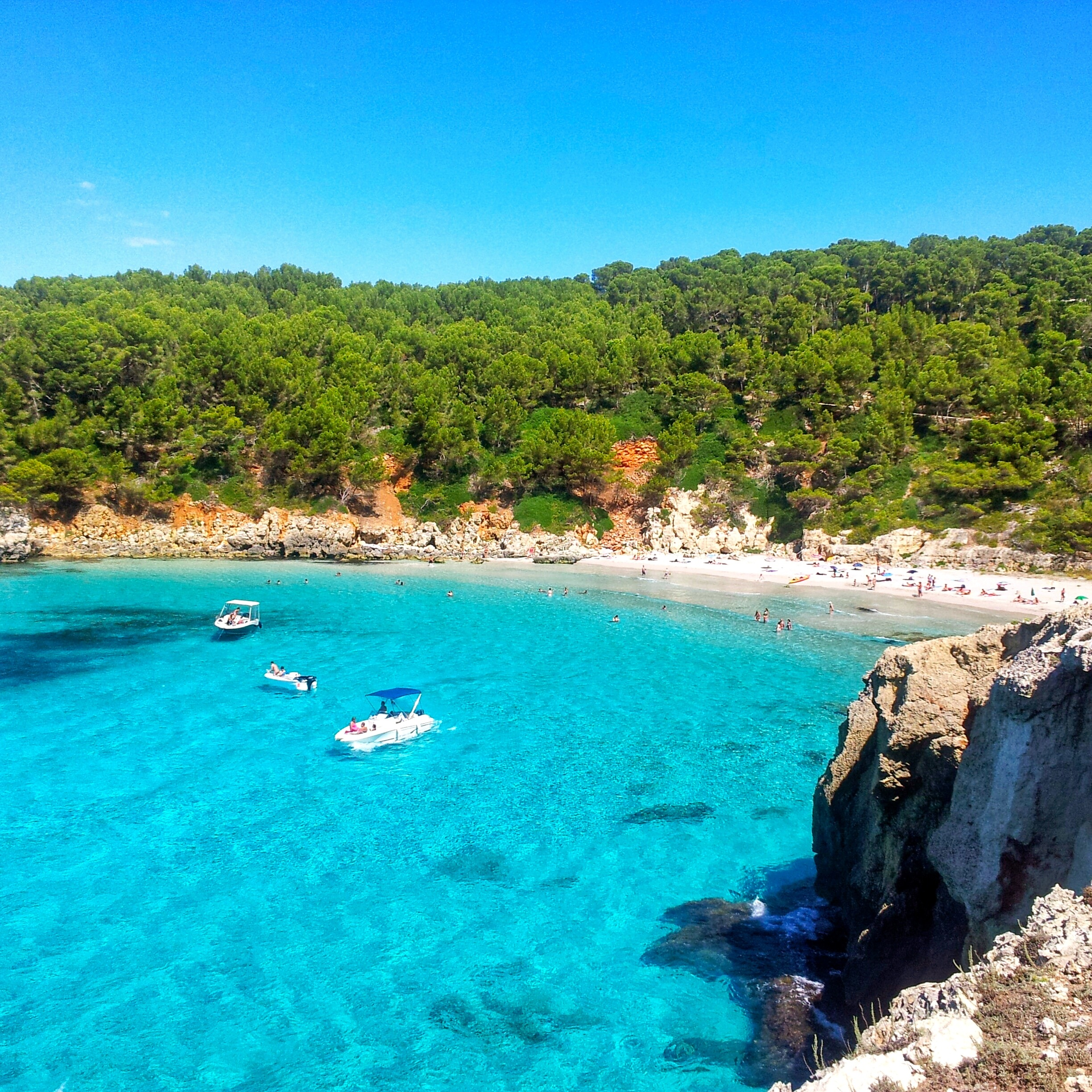 Cala Escorxada, South Coast of Menorca